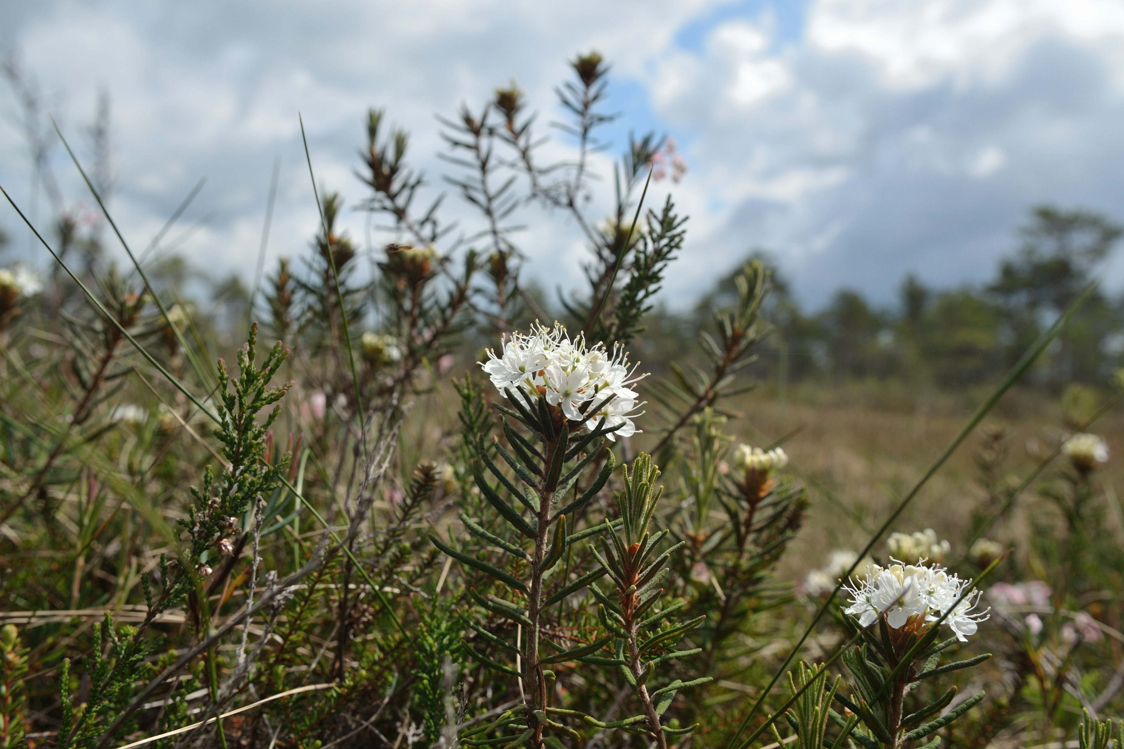 Flowering Rhododendron tomentosum in Kaasikjärve bog